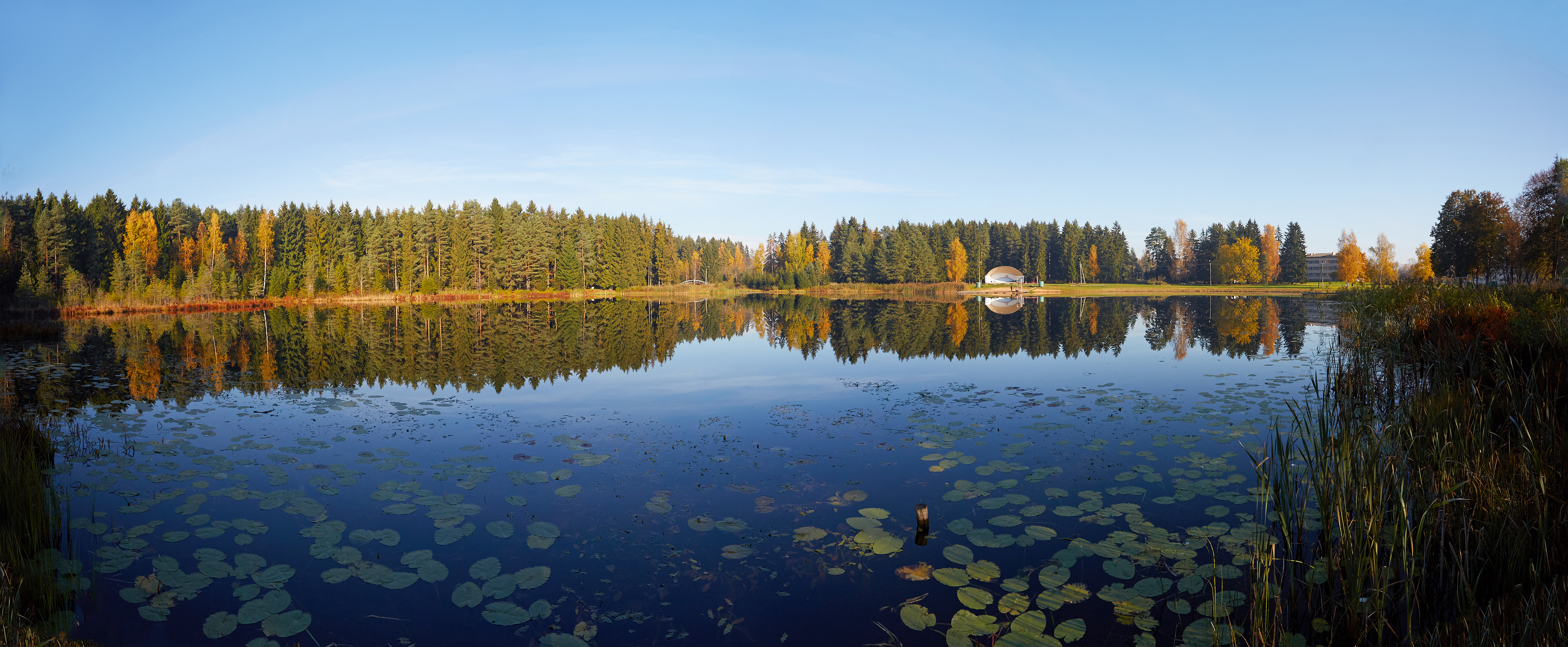 Lake Kanariku in Võru County, Estonia.